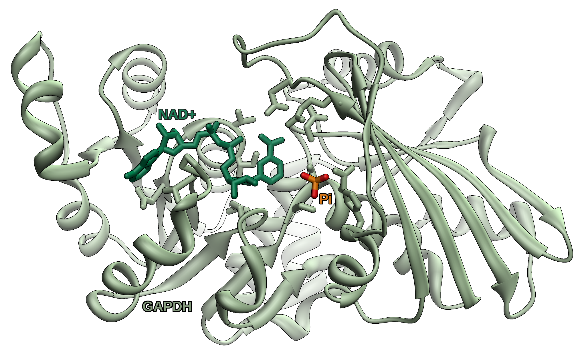 Glyceraldehyde 3-phosphate dehydrogenase (GAPDH) with NAD+ and Pi bound to the active site. PDB rendering based on 2CZC.